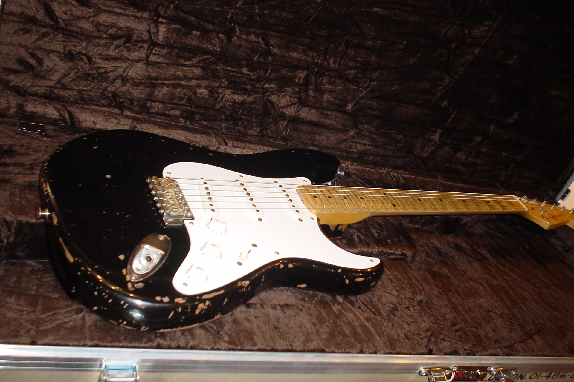 Fender Stratocaster Blackie (Eric Clapton's Tribute Model)